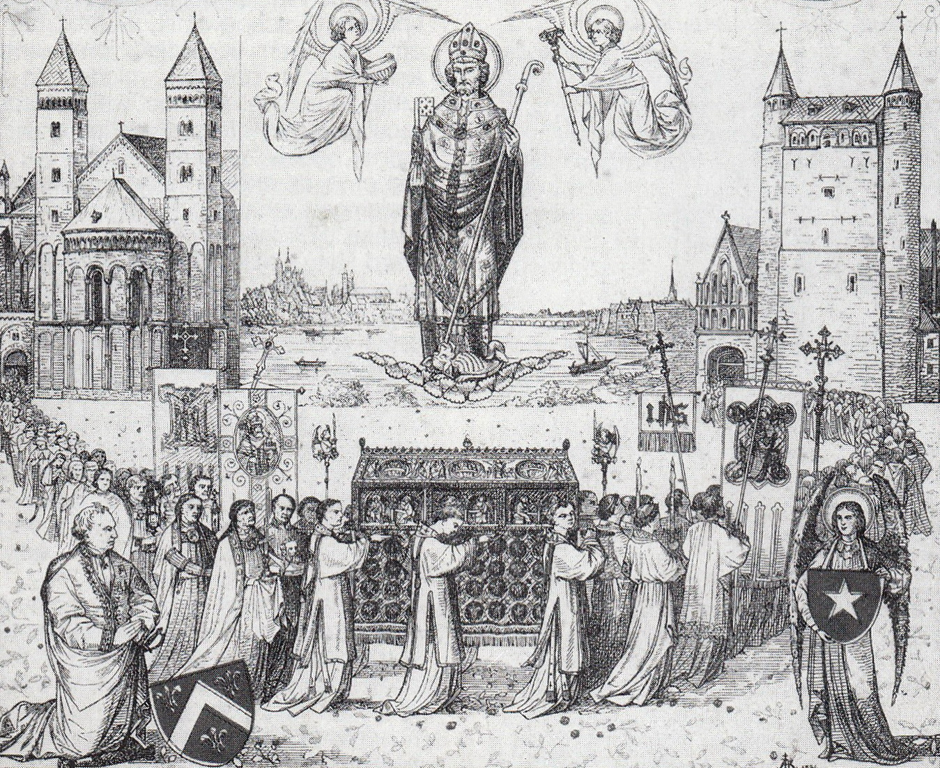 Souvenir print of the opening in 1873 of the new Treasury of Saint Servatius in Maastricht, Netherlands. Bottom left: a portrait and the coat of arms of the Maastricht entrepreneur and sponsor of the new treasury Petrus Regout (1801-1878).